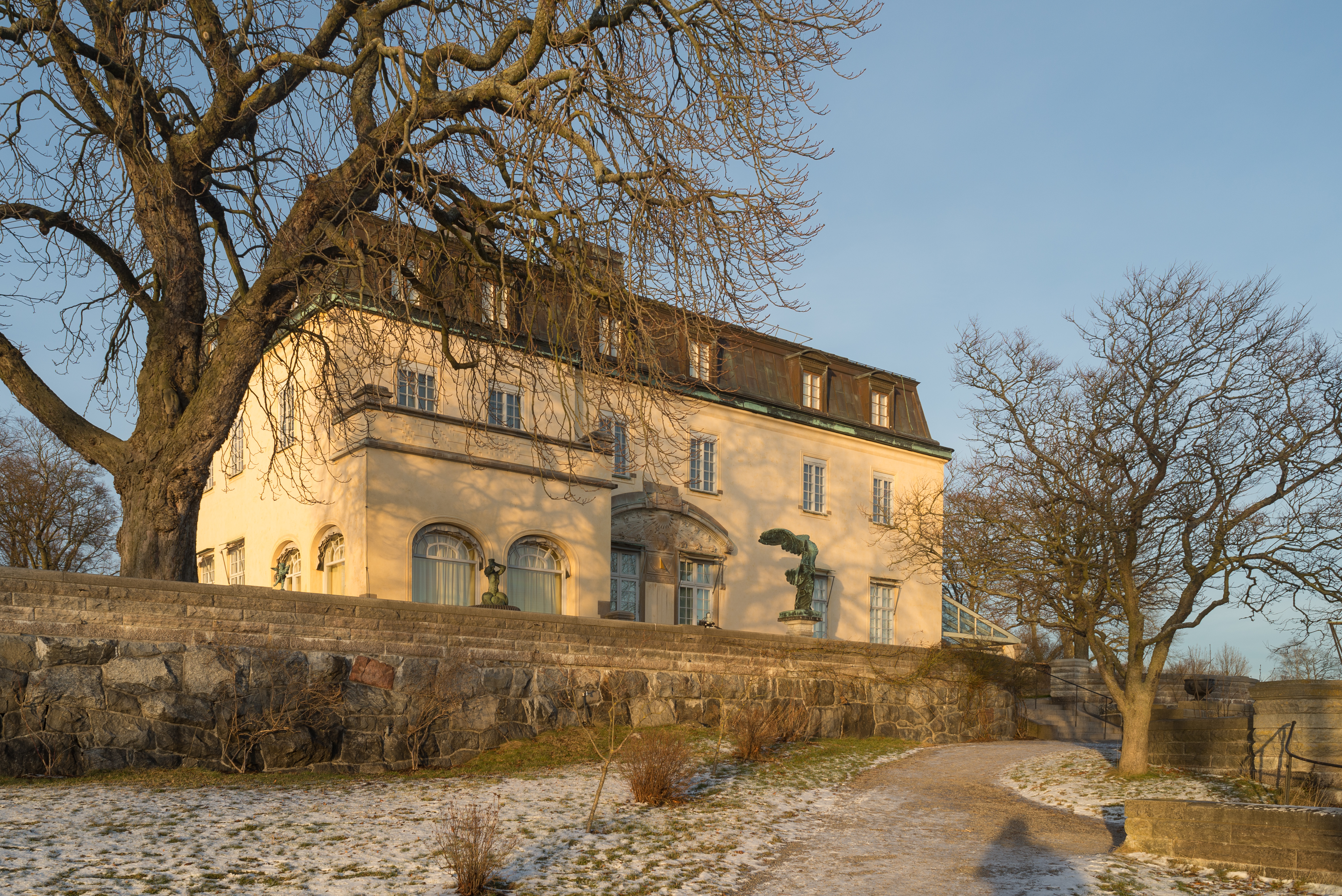 Waldemarsudde (Swedish: "Cape of Waldemar"), former home of the Swedish Prince Eugene, is a museum located on Djurgården in central Stockholm. The complex consists of a castle-like main building - the Mansion - completed in 1905 (architect Ferdinand Boberg), and the Gallery Building, added in 1913. The estate also includes the original manor-house building, known as the Old House and an old linseed mill, both dating back to the 1780s.